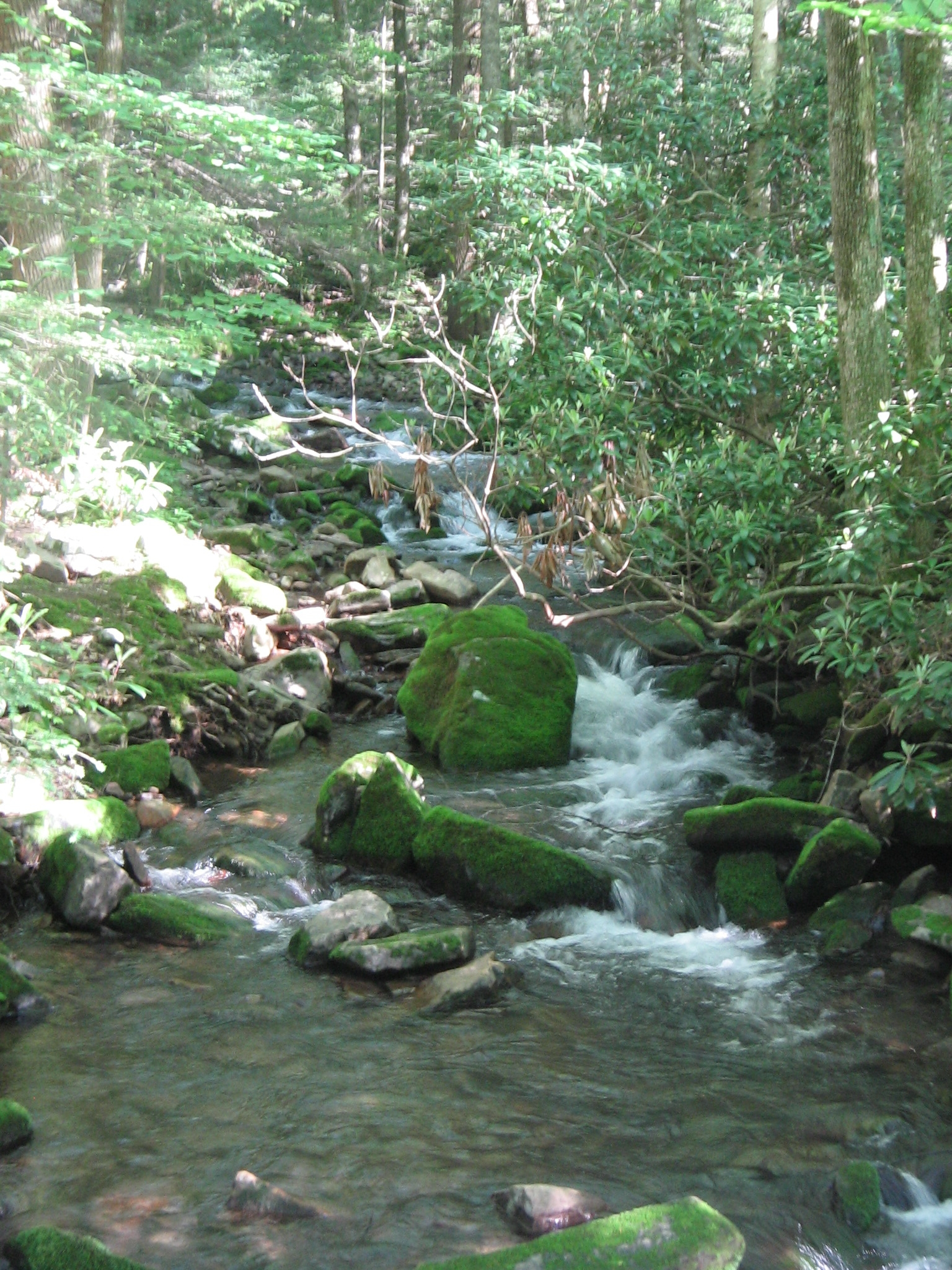 Unnamed "Fourth Gap" Tributary to White Deer Hole Creek, Washington Township, Lycoming County, Pennsylvania, USA (Class A Wild Trout Waters)